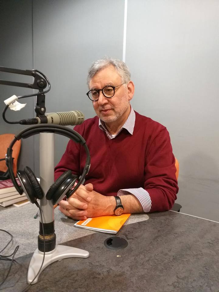 John P. Portelli, professor and author